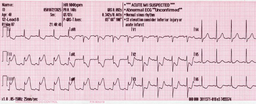 An ECG showing pardee waves indicating acute myocardial infarction in the inferior leads II, III and aVF with reciprocal changes in the anterolateral leads.